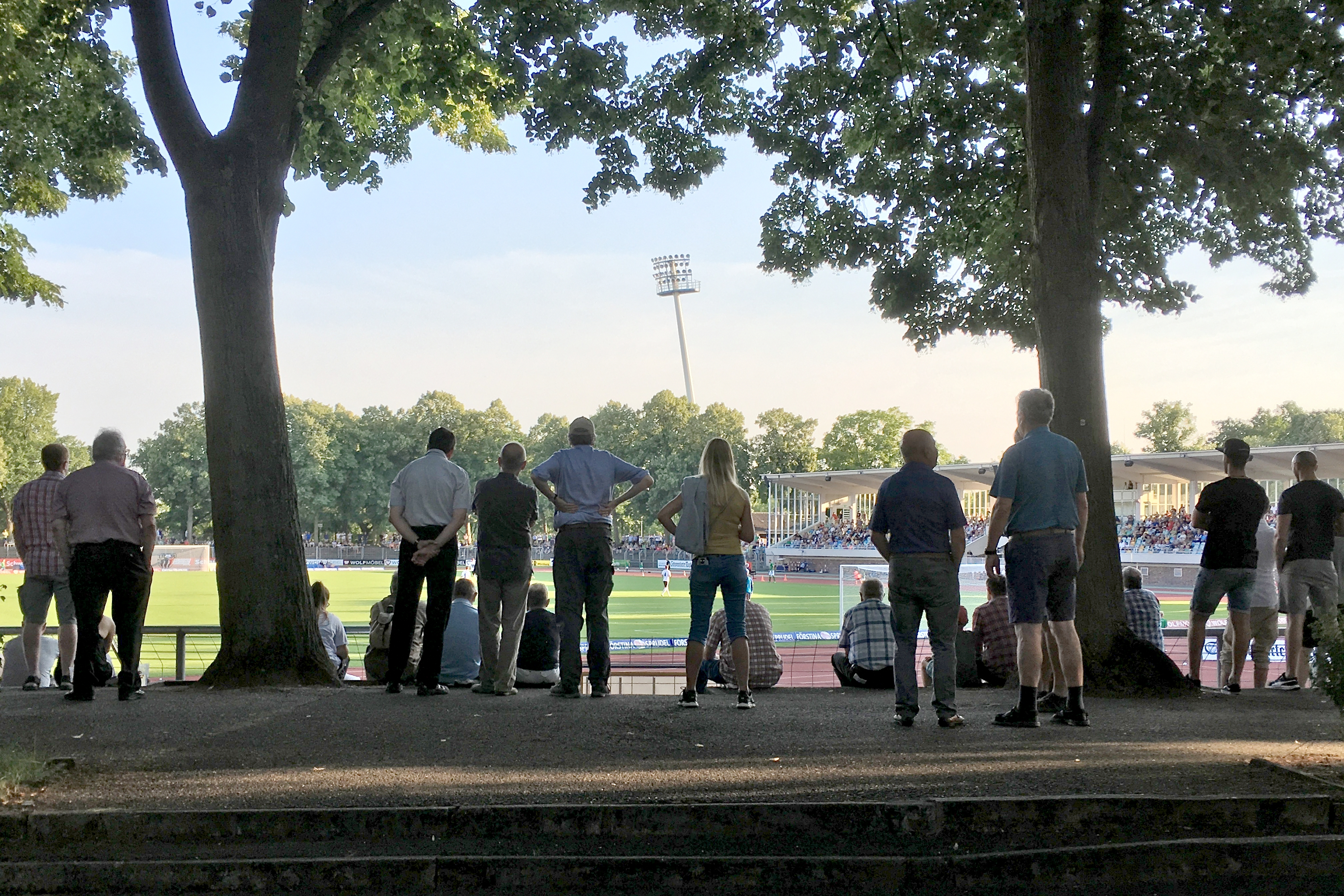 Summer evening in Willy-Sachs-Stadion (2017)